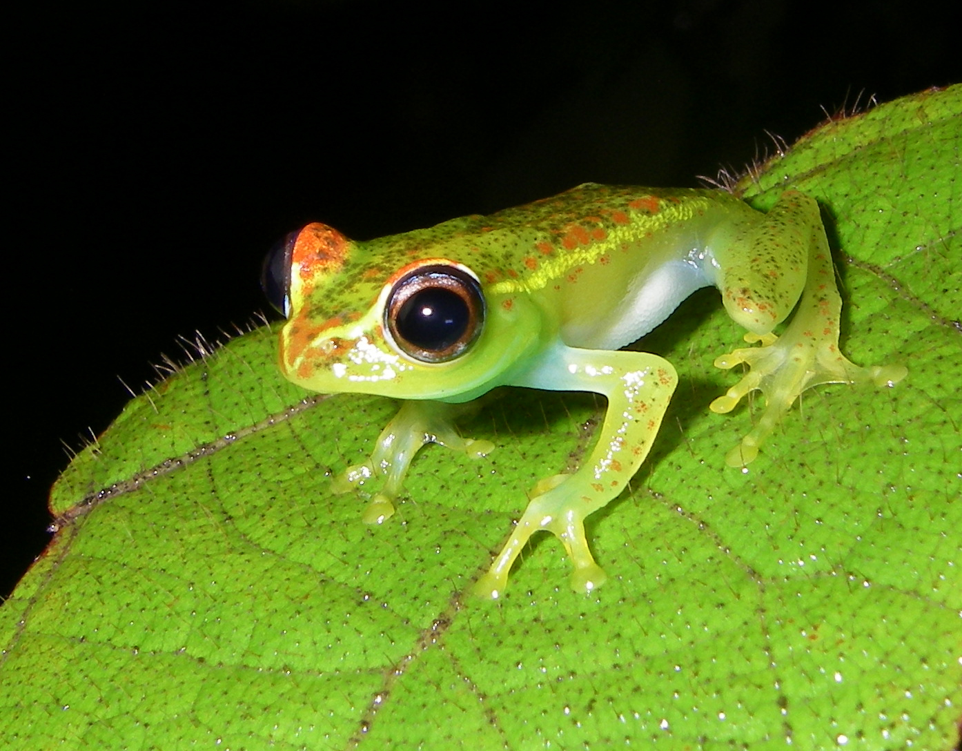 Boophis rappiodes (Mantellidae, Boophinae) from Andasibe, eastern Madagascar